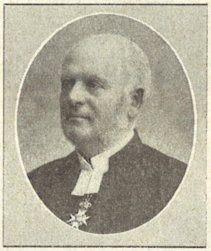 Johan Fredrik Håhl (1835-1918), Swedish clergyman and translator; pastor primarius (vicar of Stockholm) from 1897.